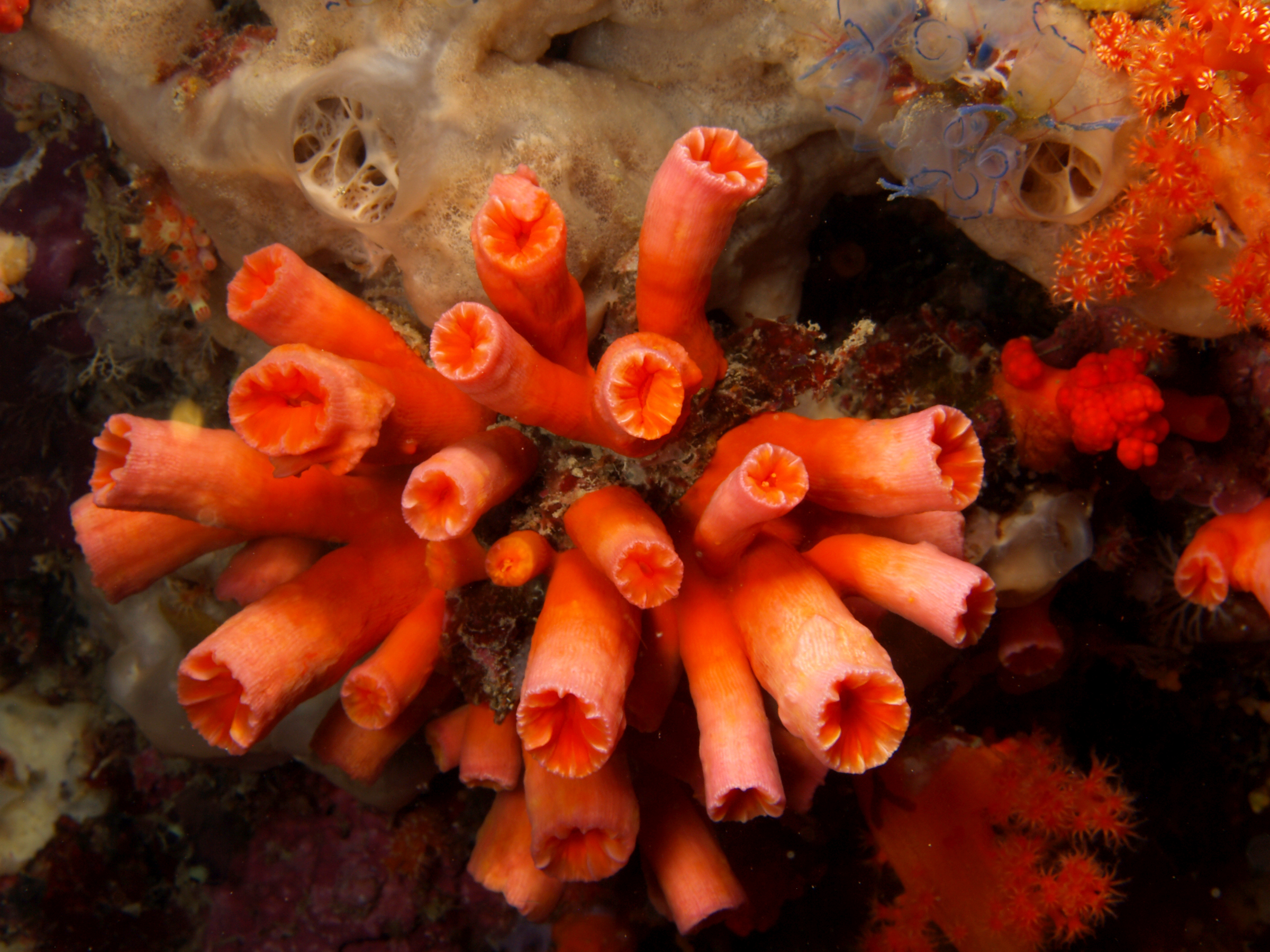 Tubastraea faulkneri cup coral during the day. At night the polyps extend their tentacles out of each cup to feed.